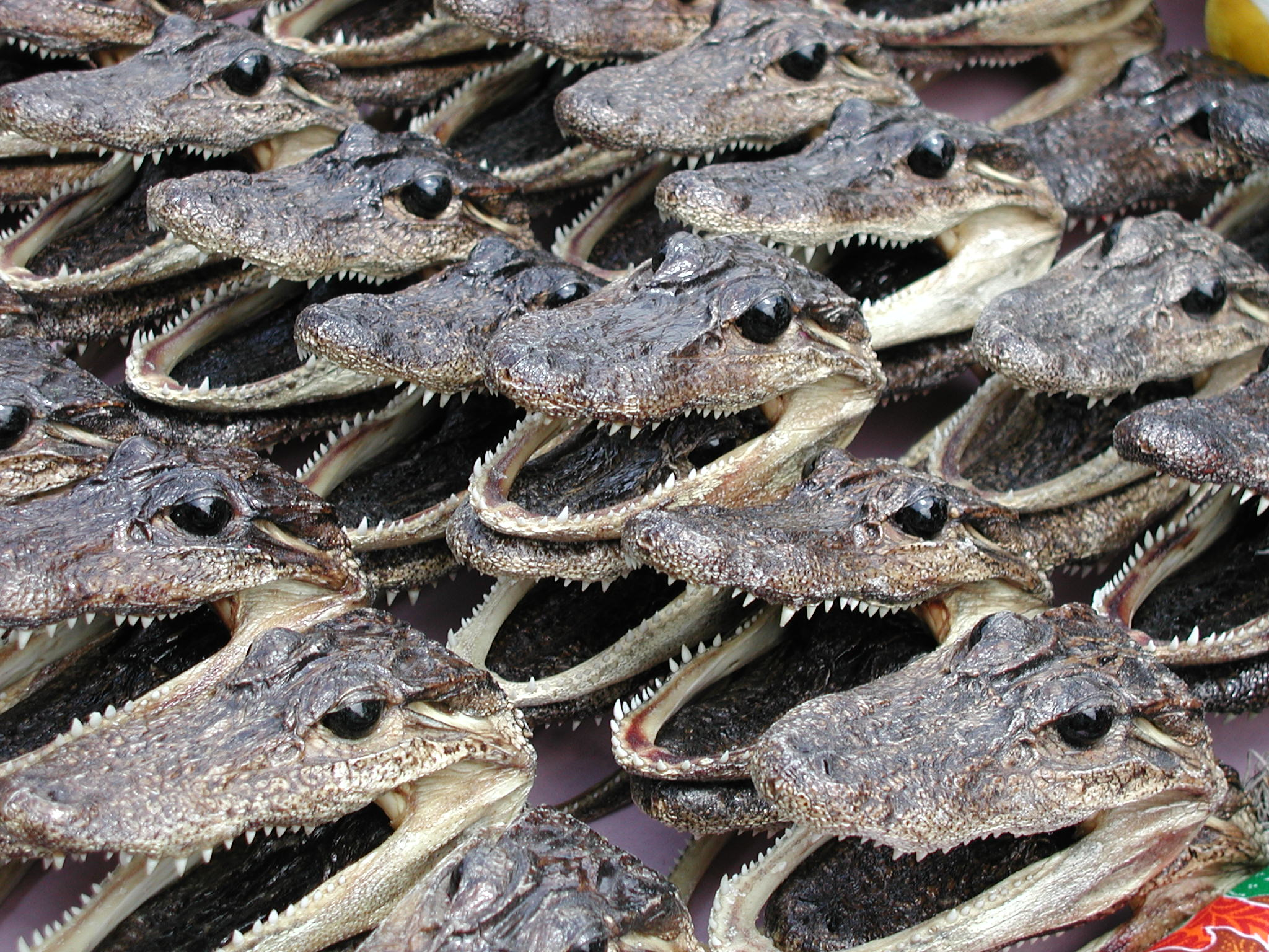 Alligator Heads: New Orleans, May 2003. Preserved alligator heads sold as curios in the French Market.